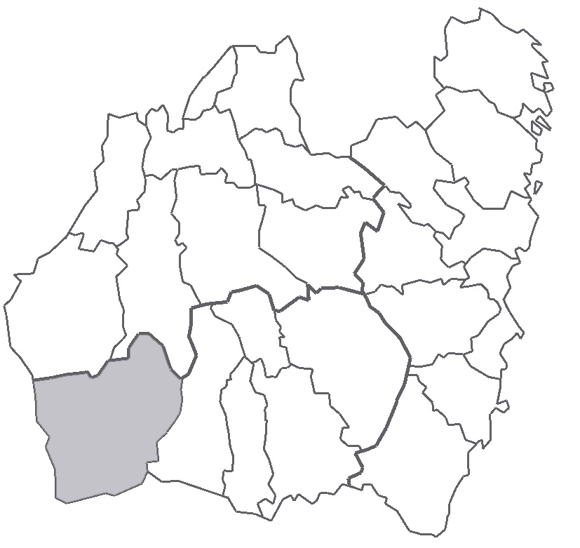 Map describing the location of Sunnerbo Hundred in the province of Småland, Sweden.